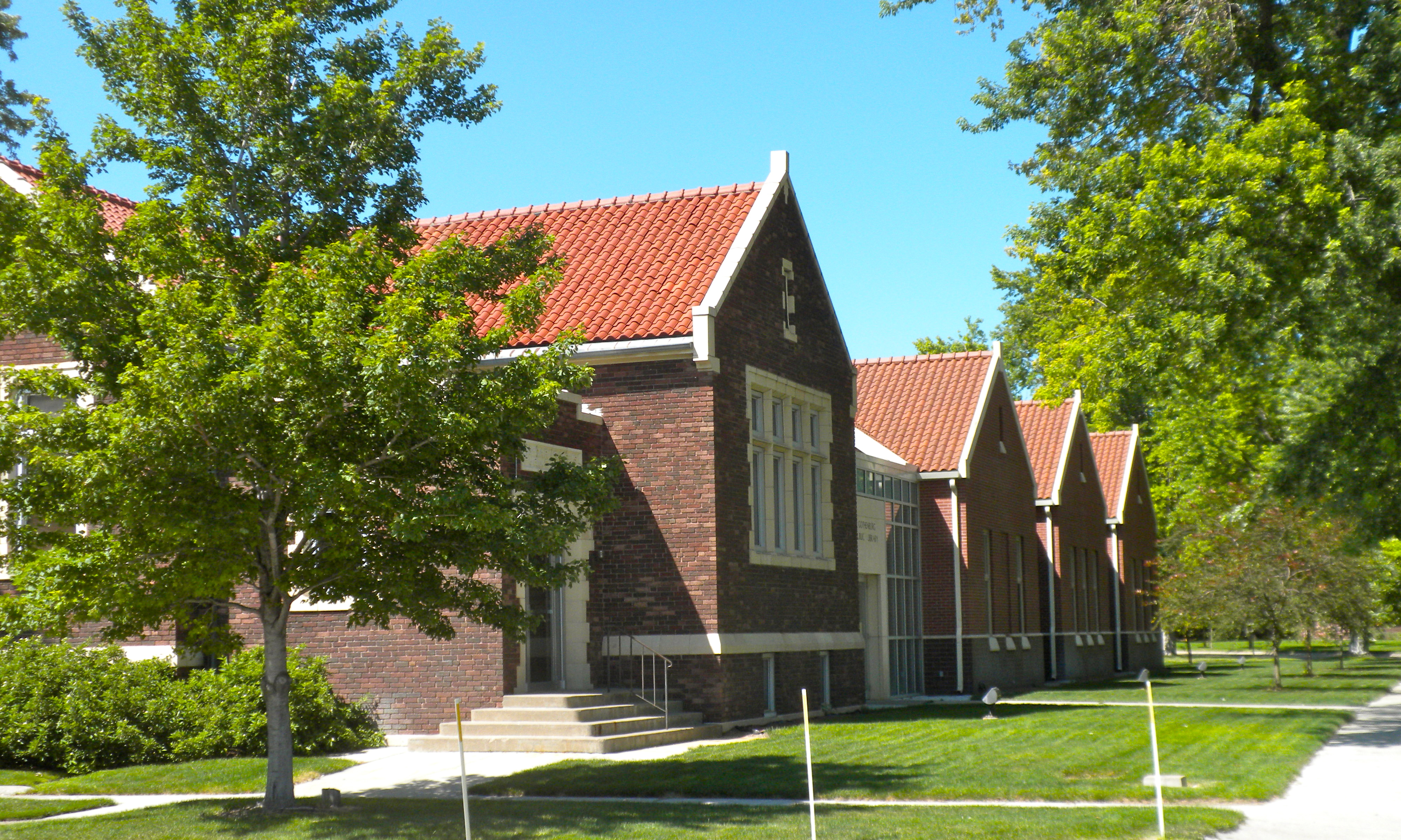 Carnegie Public Library, in Gothenburg, Nebraska on the NRHP since December 19, 1986. At 1104 Lake Ave., Gothenburg. The 1st gable in the foreground is part of the historic building. The other 3 are fairly new additions.